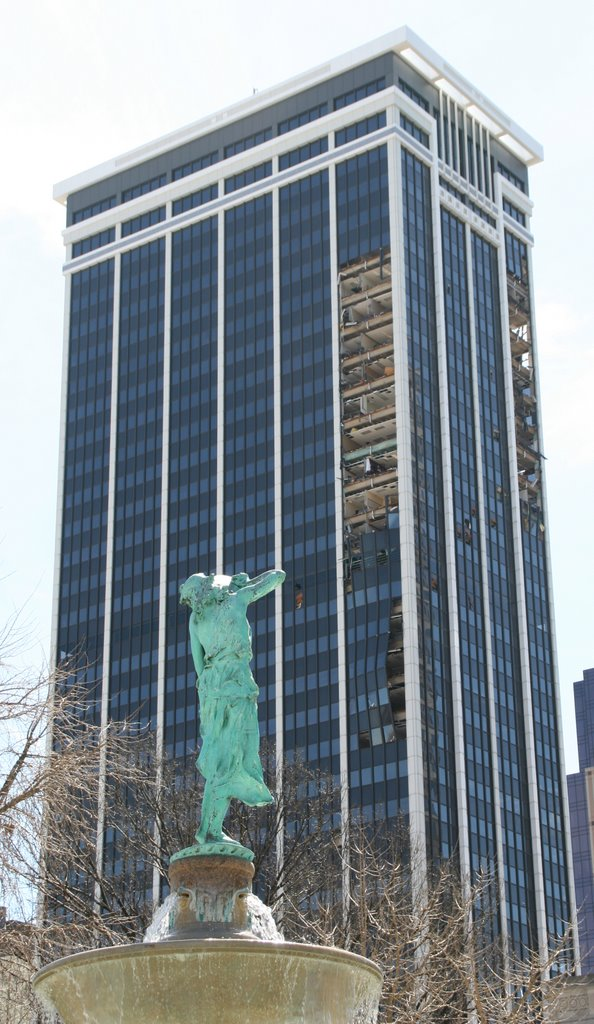 I took this picture. I also posted it at . The north and west sides of the building are visible in the picture, and daylight is visible through the southwest corner near the top. Many windows were broken out of the south side of the building as well.